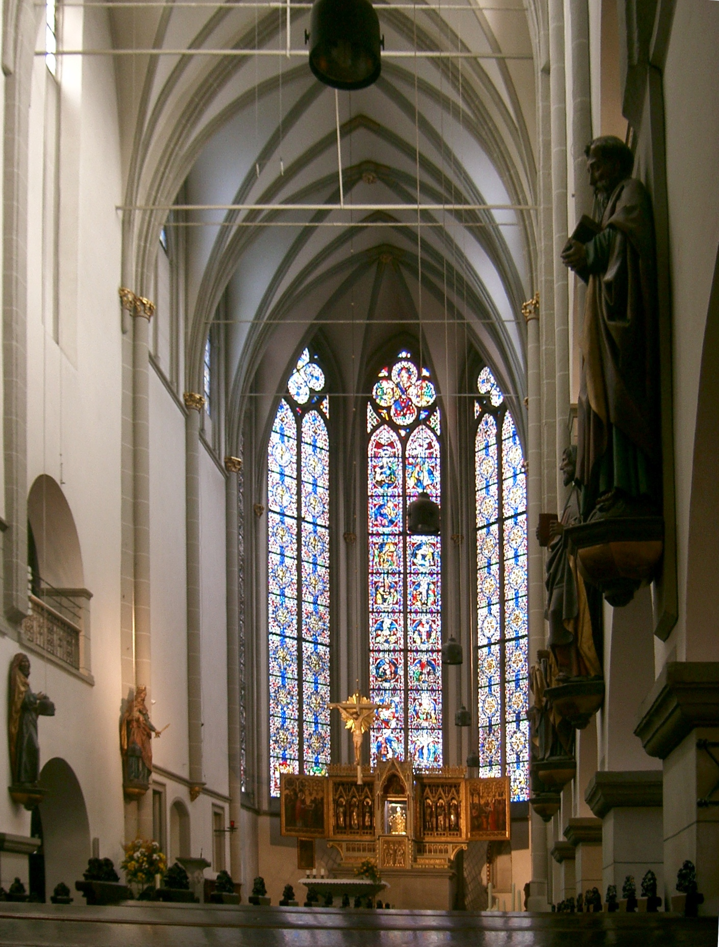 Siegburg, church St. Servatius, nave towards east